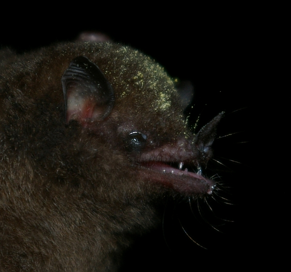 Hylonycteris underwoodii with pollen